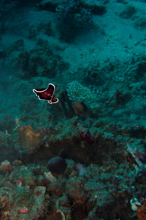 Nudibranch Thysanozoon-Sp